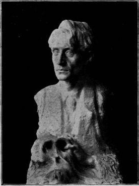 Portrait of the biologist Pavel Grošelj with a skull of a primate in his arms. Vienna Secession style.